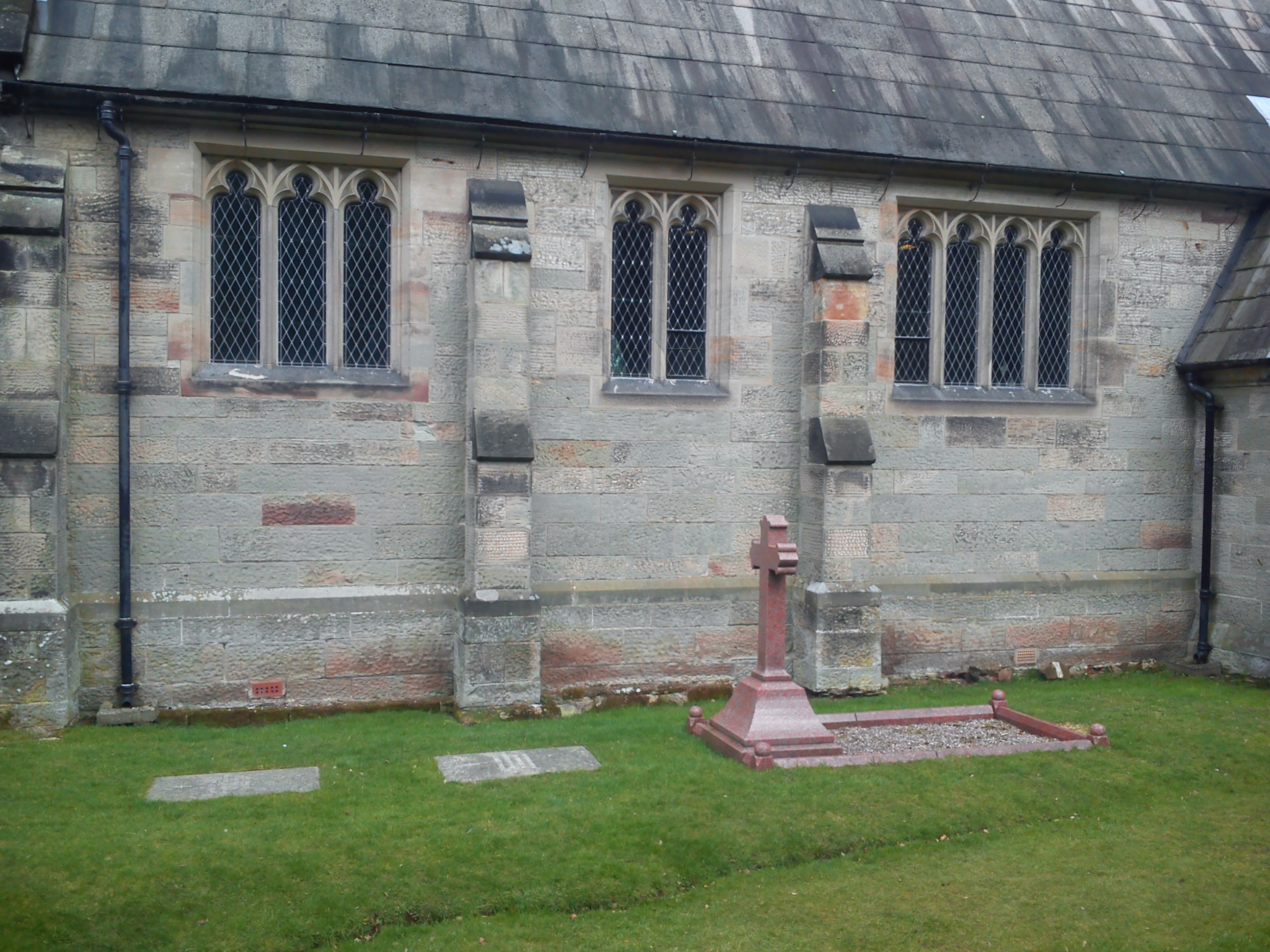 churchyard, graves of (as seen from left to right:) Evelyn Maude Anson, Countess of Lichfield (1887-1945), Thomas Edward Anson, 4th Earl of Lichfield (1883-1960) and Thomas Francis Anson, 3rd Earl of Lichfield (1856-1918)